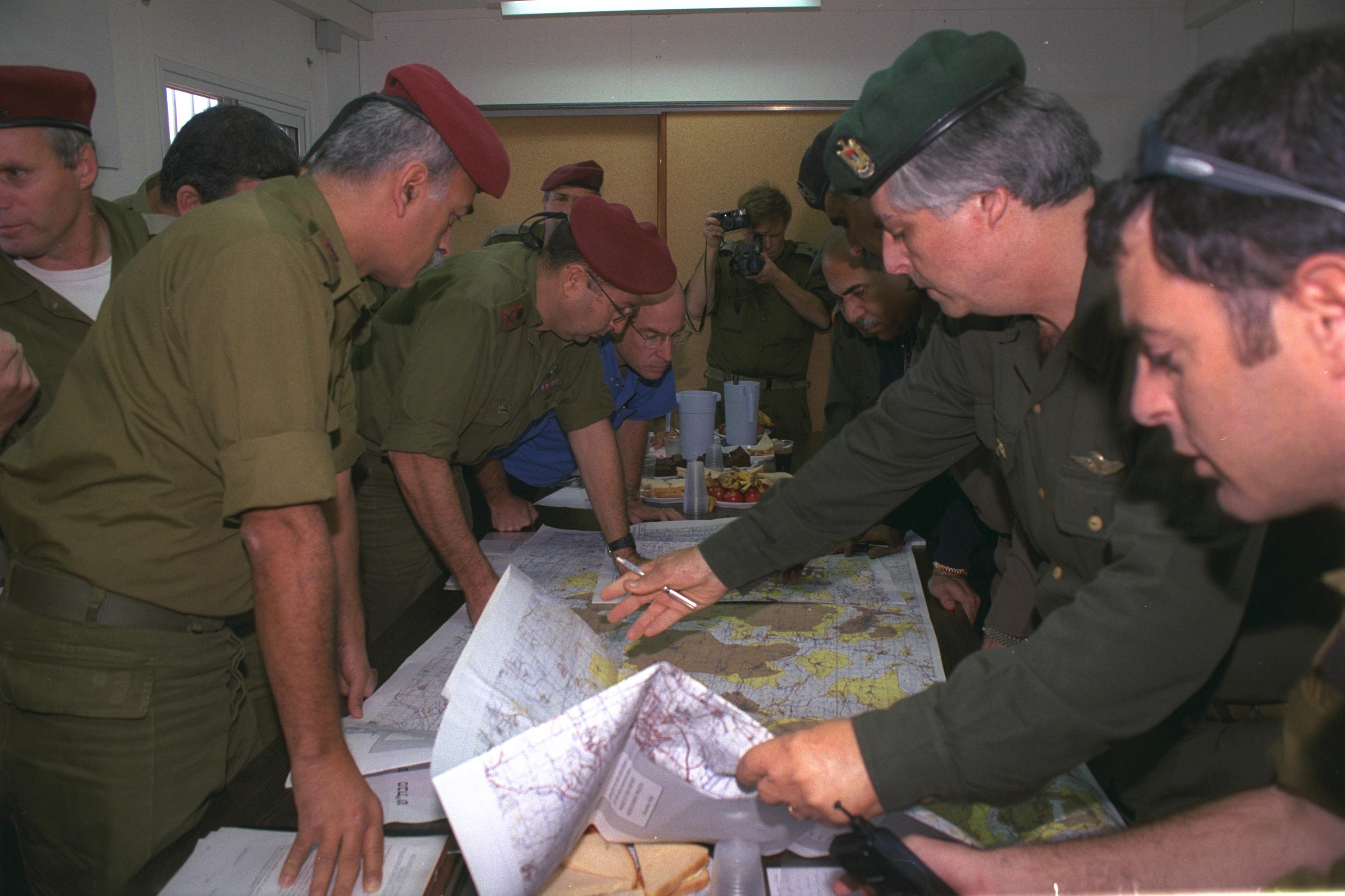 SENIOR IDF OFFICERS & PALESTINIAN AUTHORITY POLICE OFFICERS LOOKING AT MAPS EXPLANING THE IDF'S WITHDRAWAL FROM THE JENIN AREA, AS CONSENTED IN THE "WYE AGREEMENT".